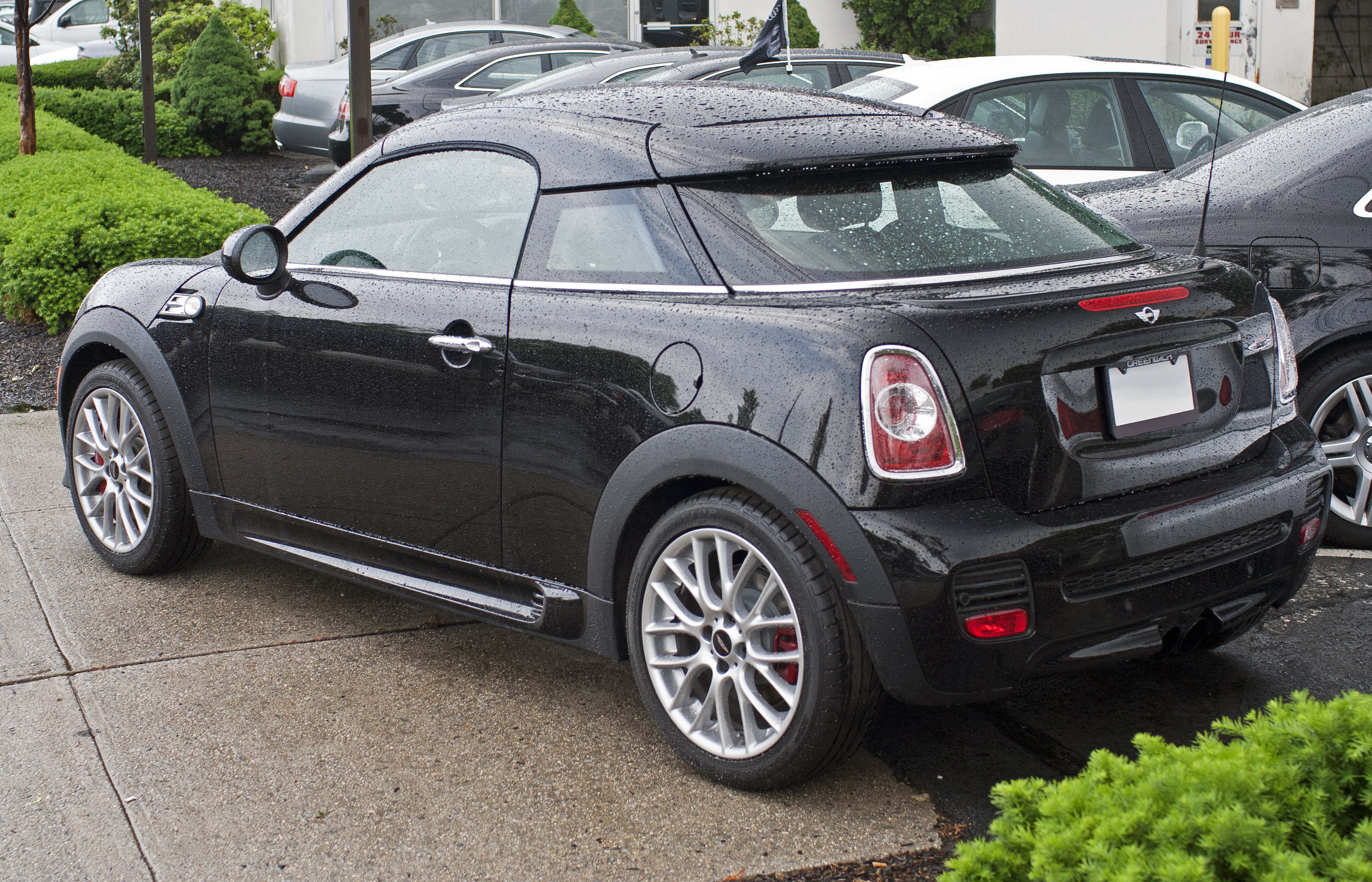 2013 Mini Cooper Coupé John Cooper Works (R59)